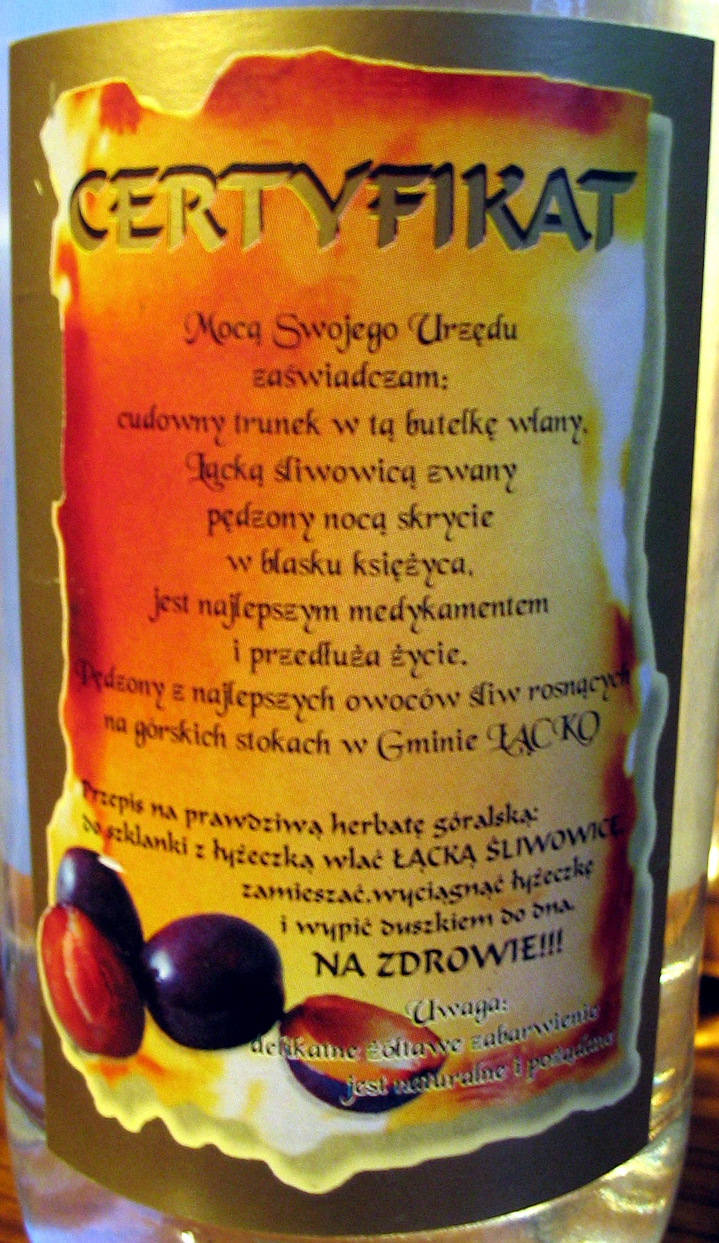 Funny "certificate" on bottle of Slivovitz from Łącko